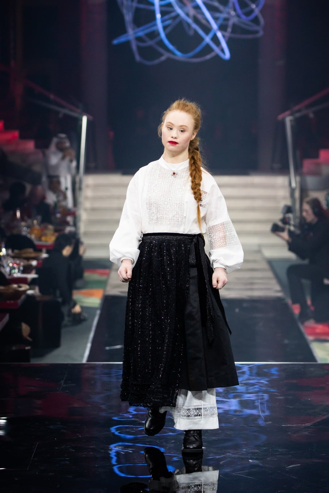 International model Madeline Stuart walking down the ramp